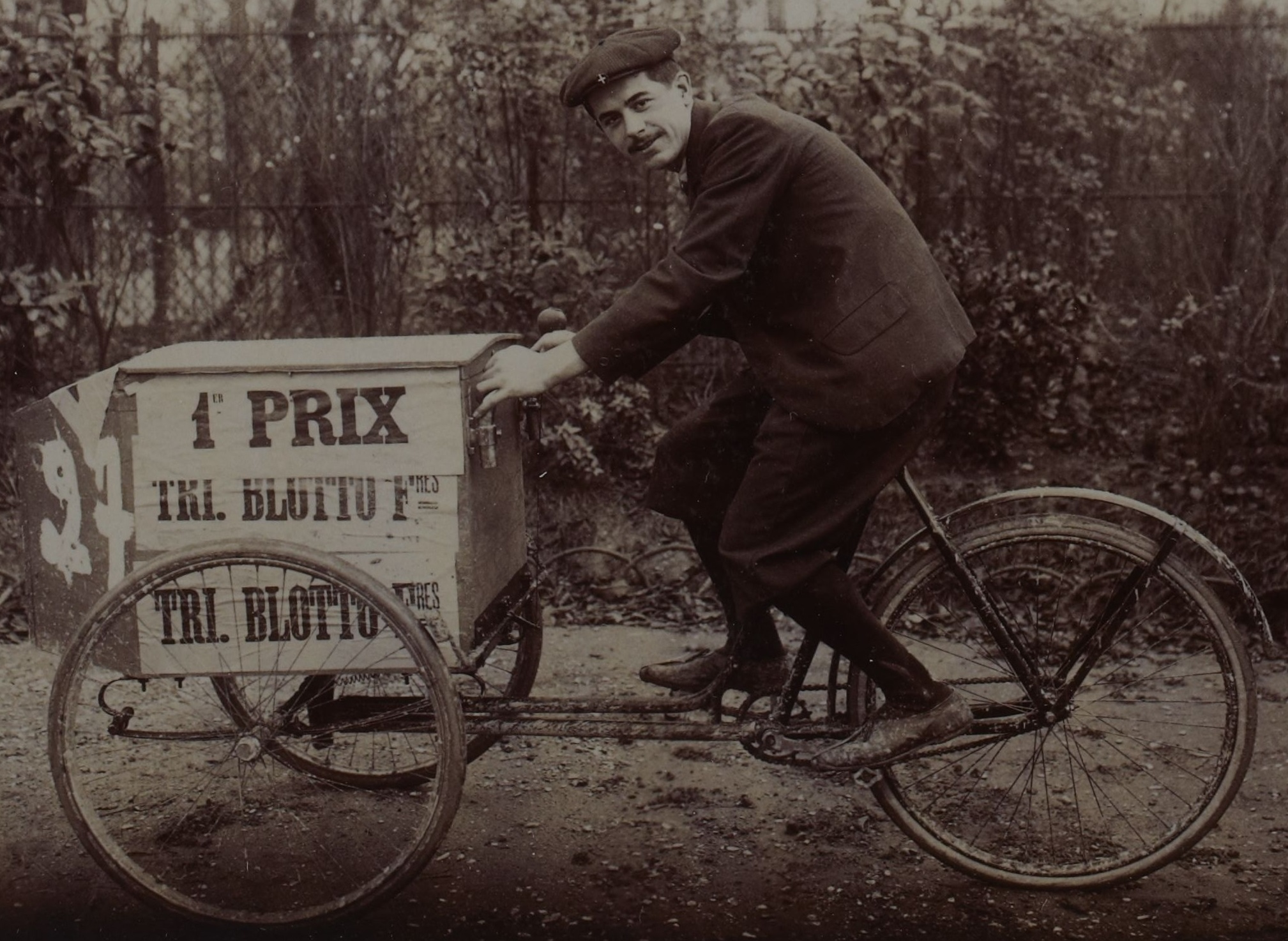 [Collection Jules Beau. Photographie sportive] : T. 12. Années 1899 et 1900 / Jules Beau : F. 42v. [Course, Les Trycicles Porteurs, organisée par l' Auto-vélo, Porte Maillot, 9 décembre 1900]